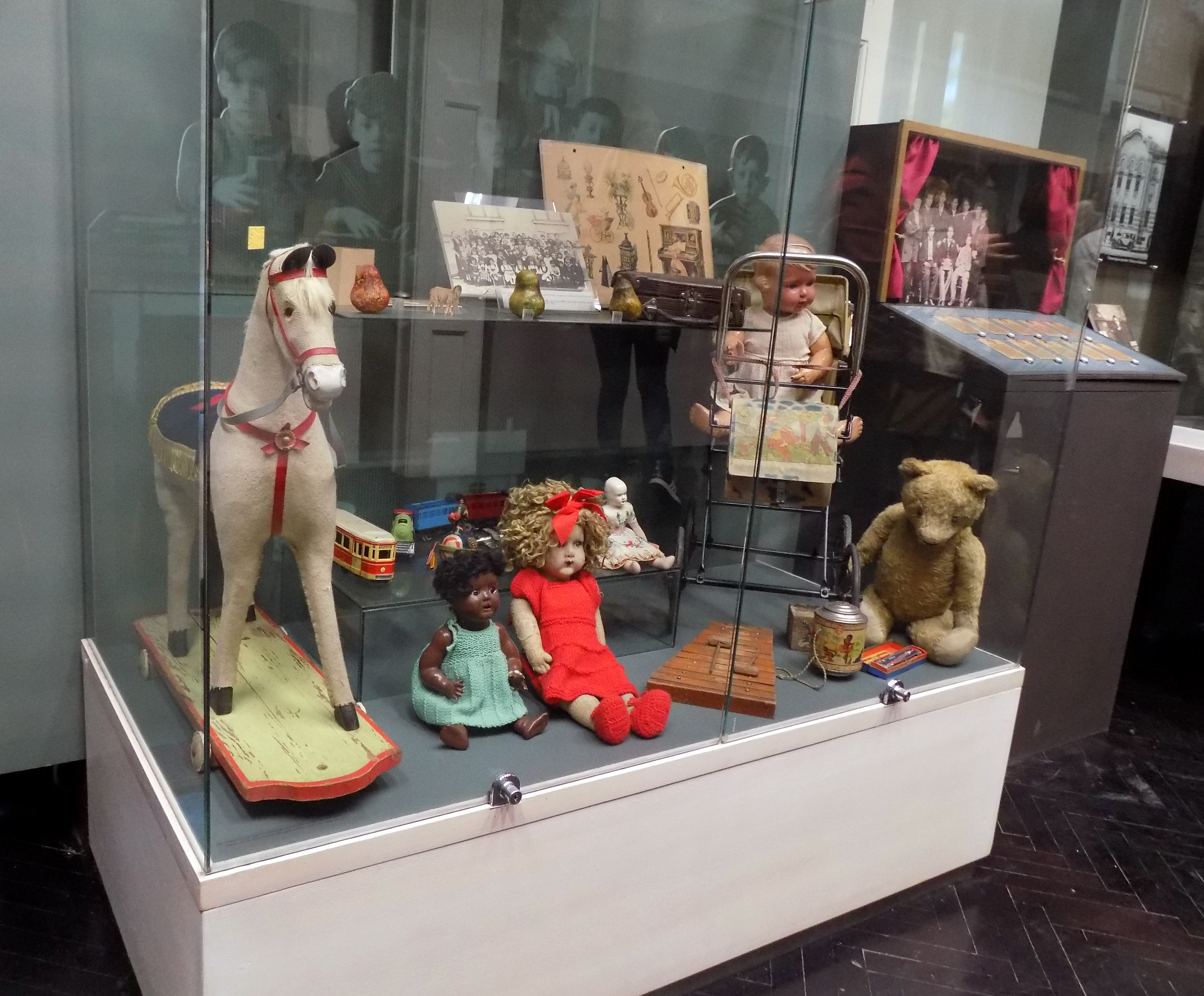 Toys used by children in Serbia in the 19th and early 20th centuries (an exhibit of the Pedagogical Museum in Belgrade)